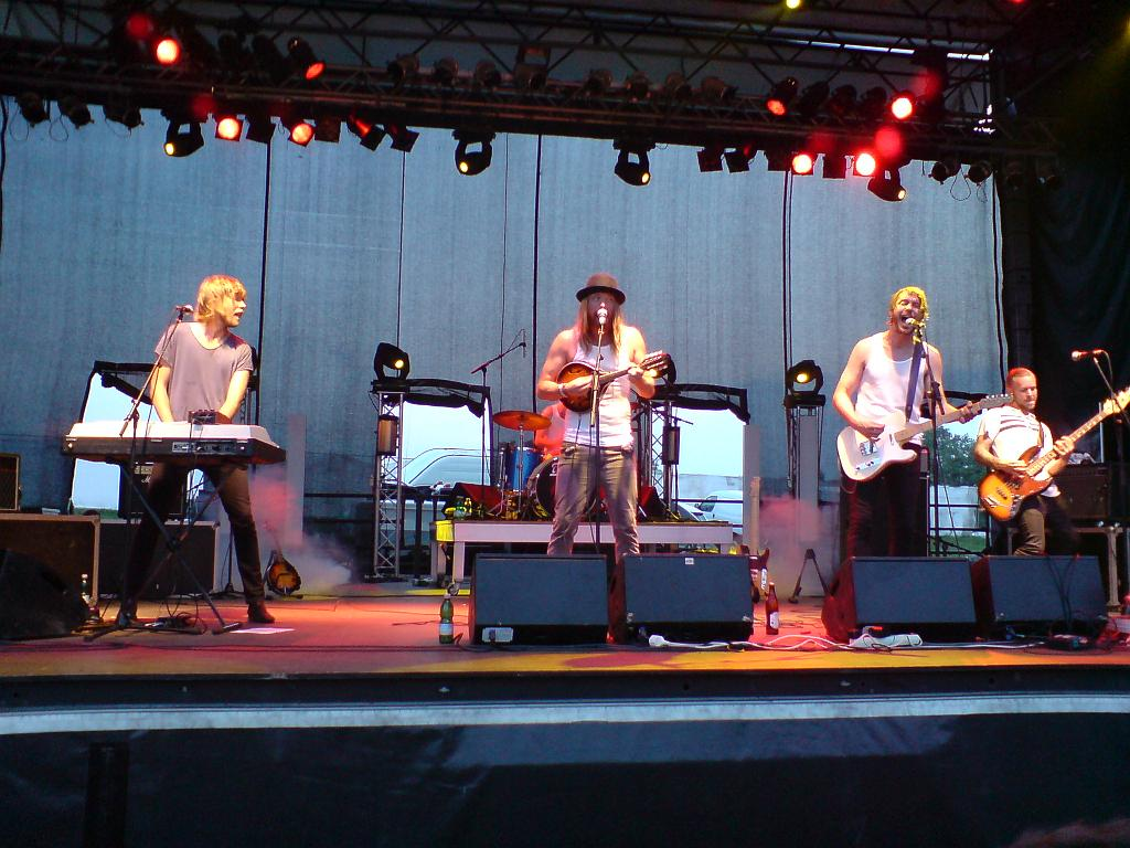 Friska Viljor, Swedish indie band, shot by myself at the Rock am Bach Festival in Neuhofen an der Ybbs, Austria on July 20, 2007